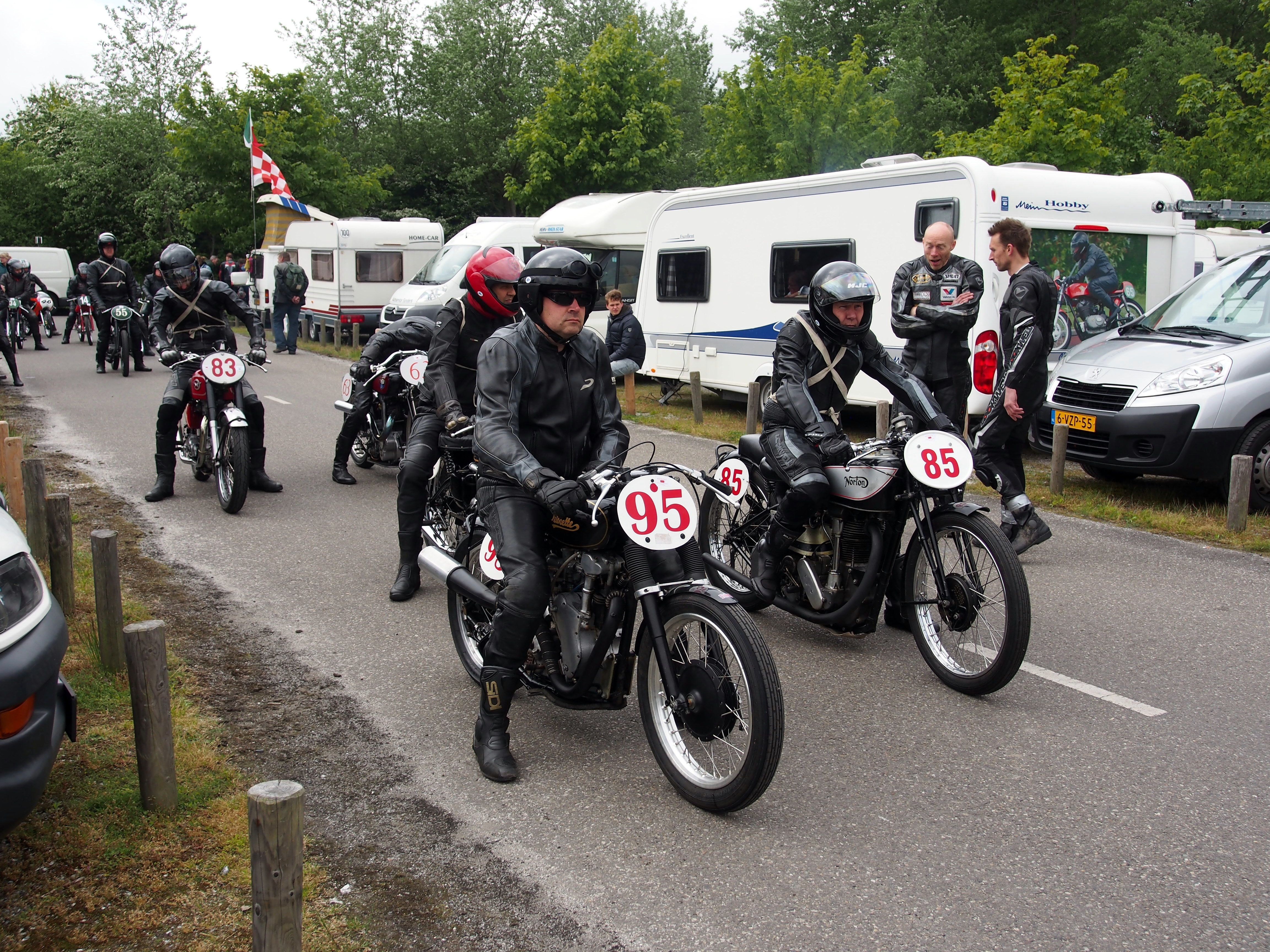 Photographed at Rockanje, The Netherlands.